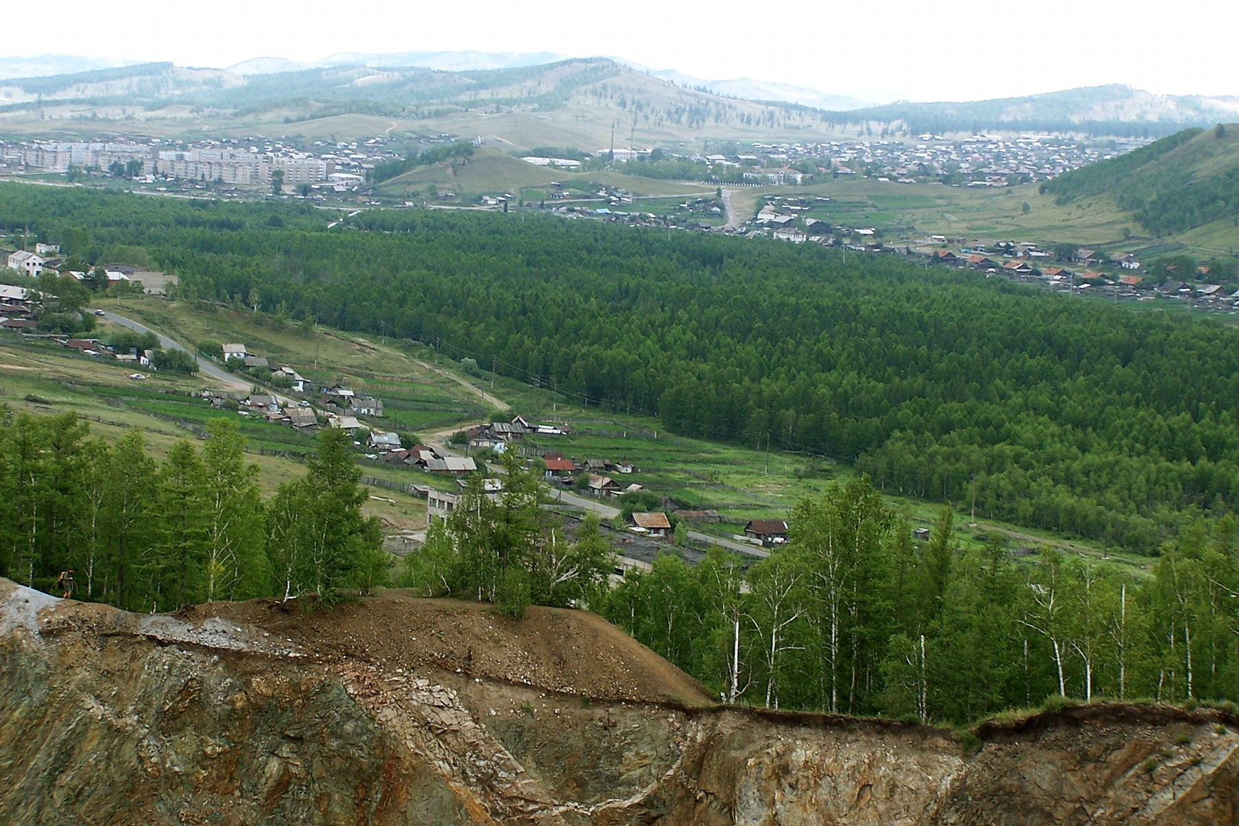 Tuim